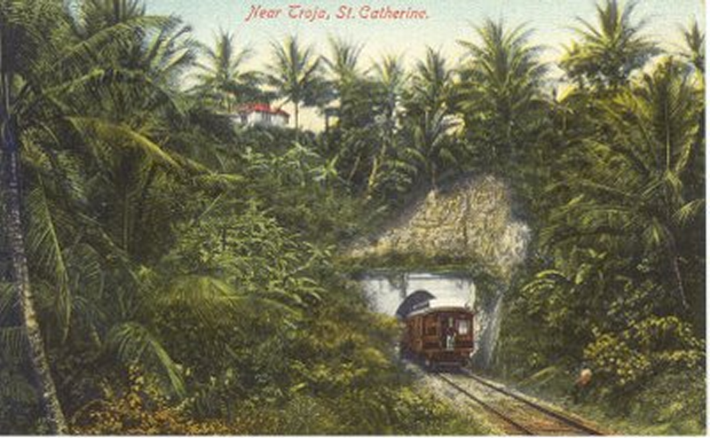 A scan of a hand coloured postcard (original black and white) depicting the rear of a train entering a tunnel near Troja, St Catherine, Jamaica.